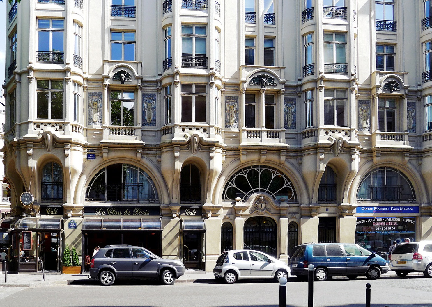 Danton street - Paris